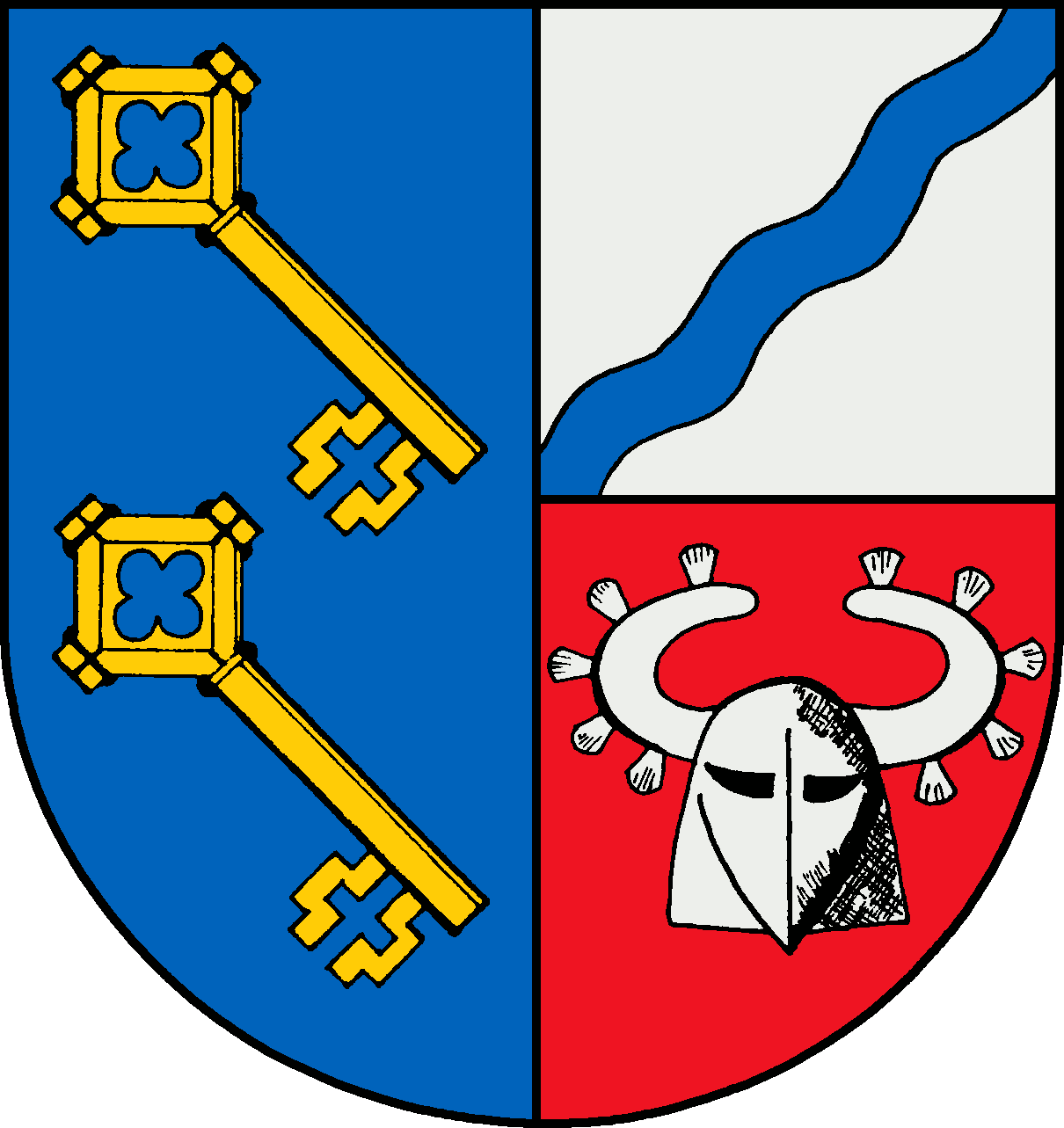 Coat of arms of the municipality Lebrade in Schleswig-Holstein, Germany.